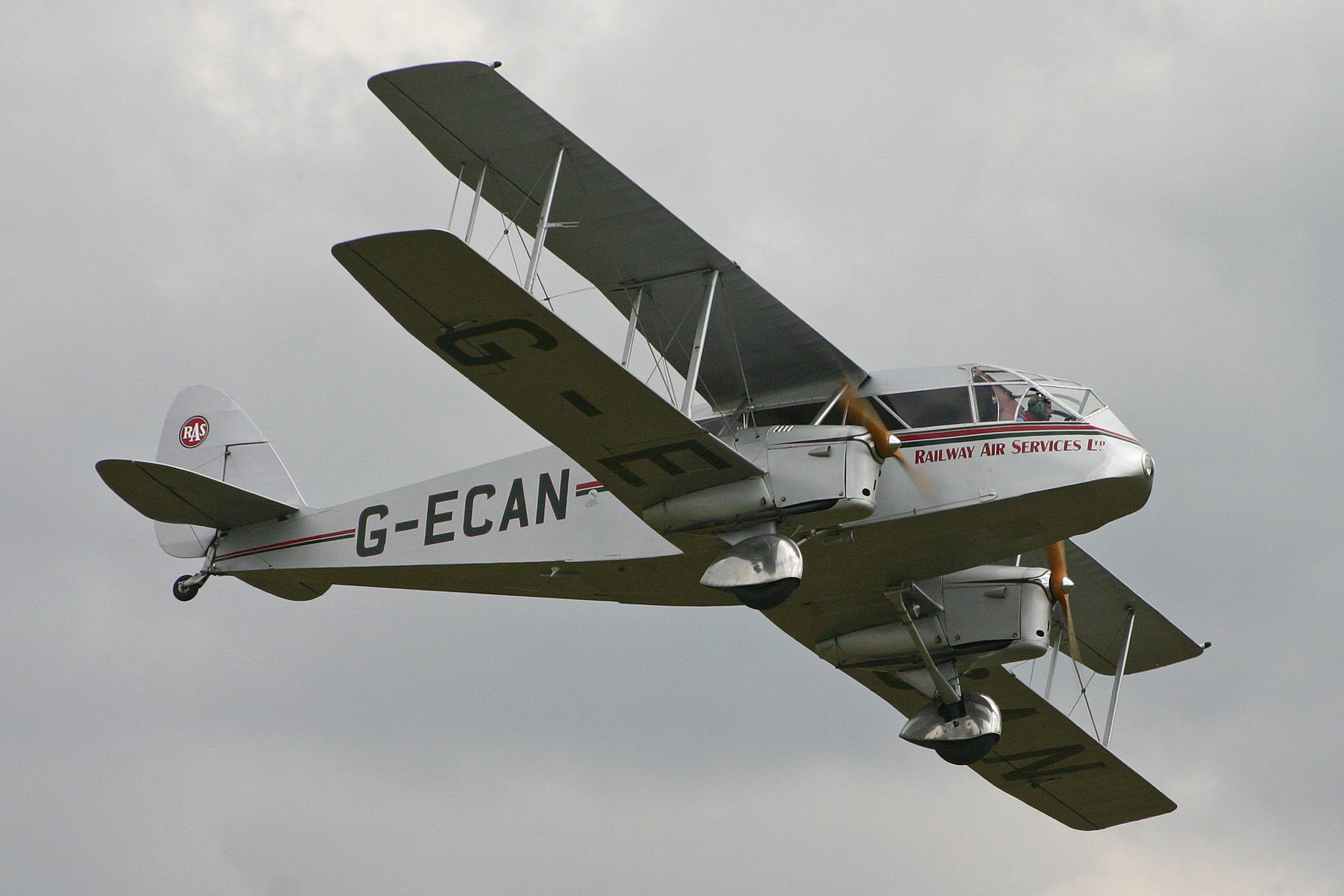 Actually ex Australian AF 'A34-59'. msn DHA2048. Taking off to display. 2011 Flying Legends. Duxford. 10-7-2011